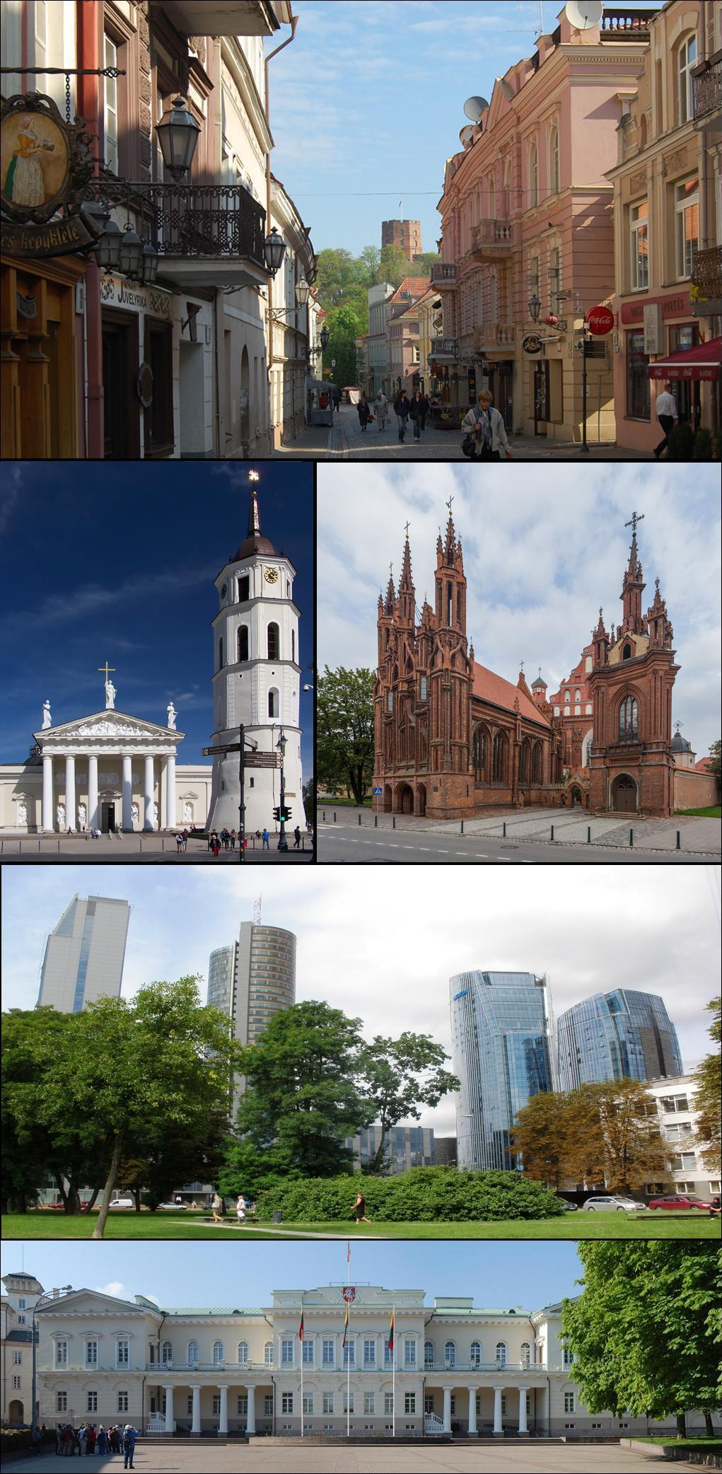 Montage of Vilnius pictures on Commons. Updated with new skyscrapers and better picture of St. Anne's Church.